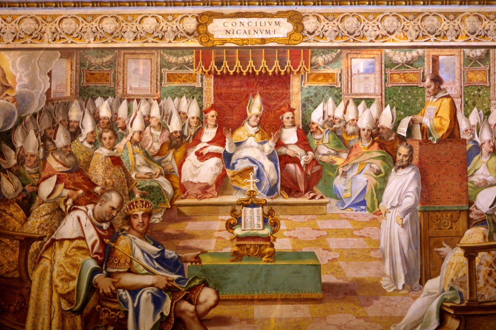 Council of Nicaea 325